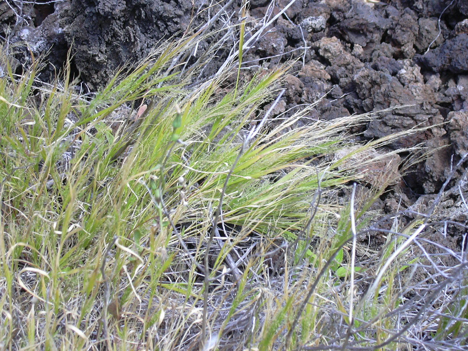 Panicum konaense (habit). Location: Maui, Kanaio